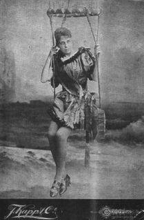 Jenny Rumary van Tassel accompanied her balloonist daughter Jeanette Van Tassel when she died in an attempt at the first manned flight in Bangladesh in 1892